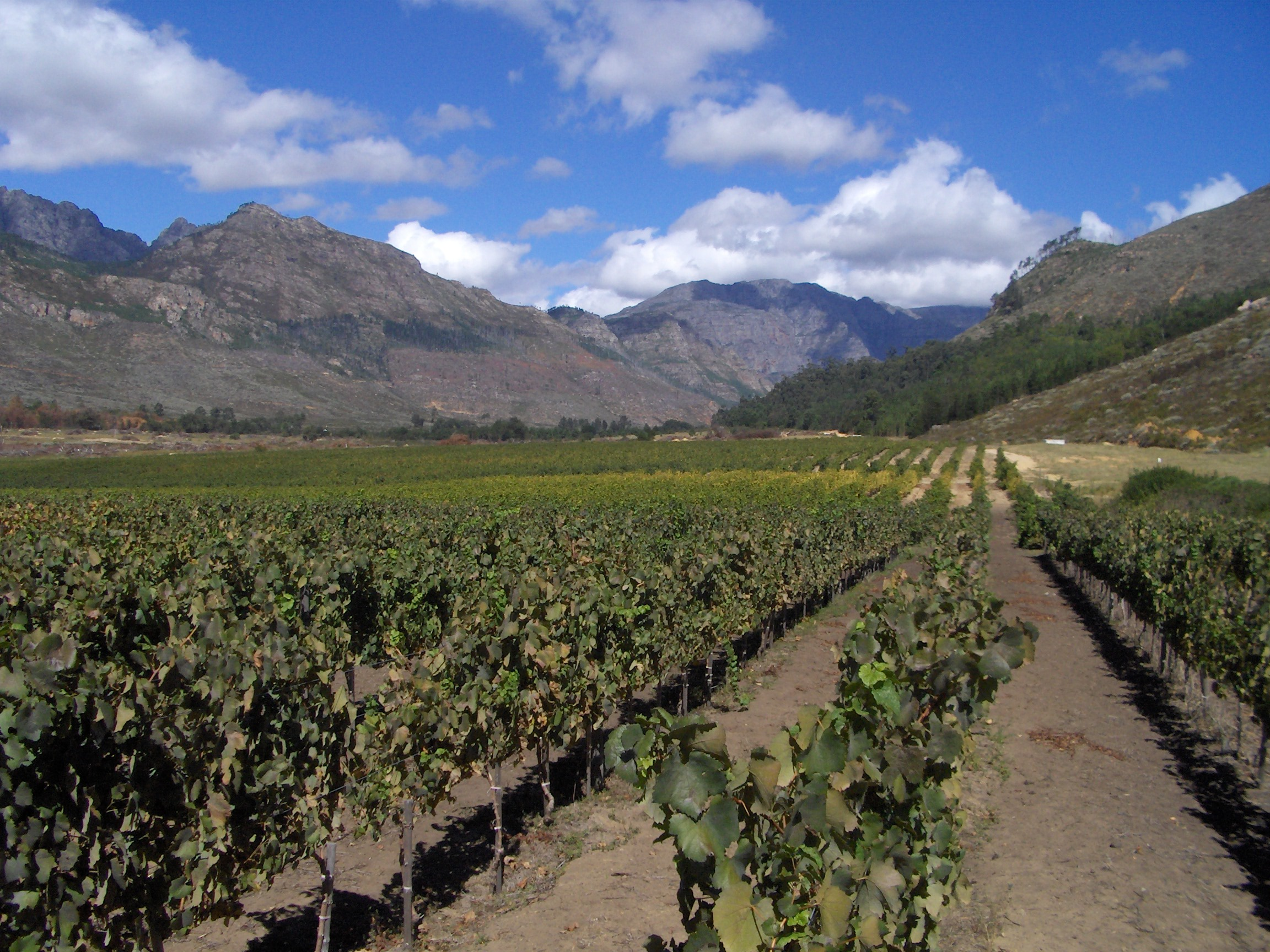 Vineyards in the South African wine region of Franshhoek